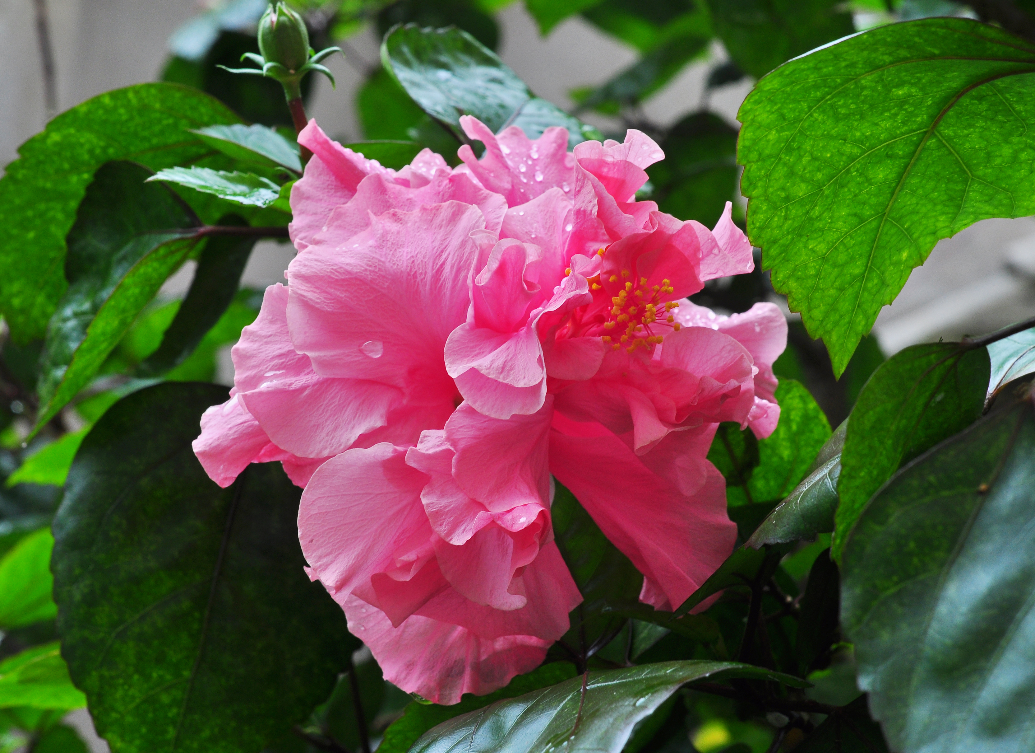 Hibiscus rosa-sinesis double-flowered cultivar.